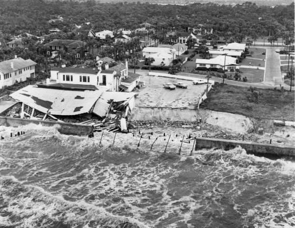 Damaging waves from Hurricane Dora in Atlantic Beach, Florida